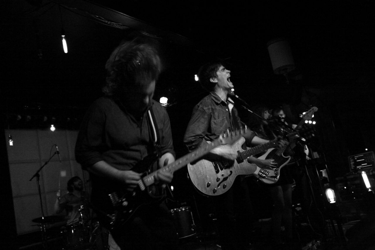 The Lonely Wild at The Echo in December 2012